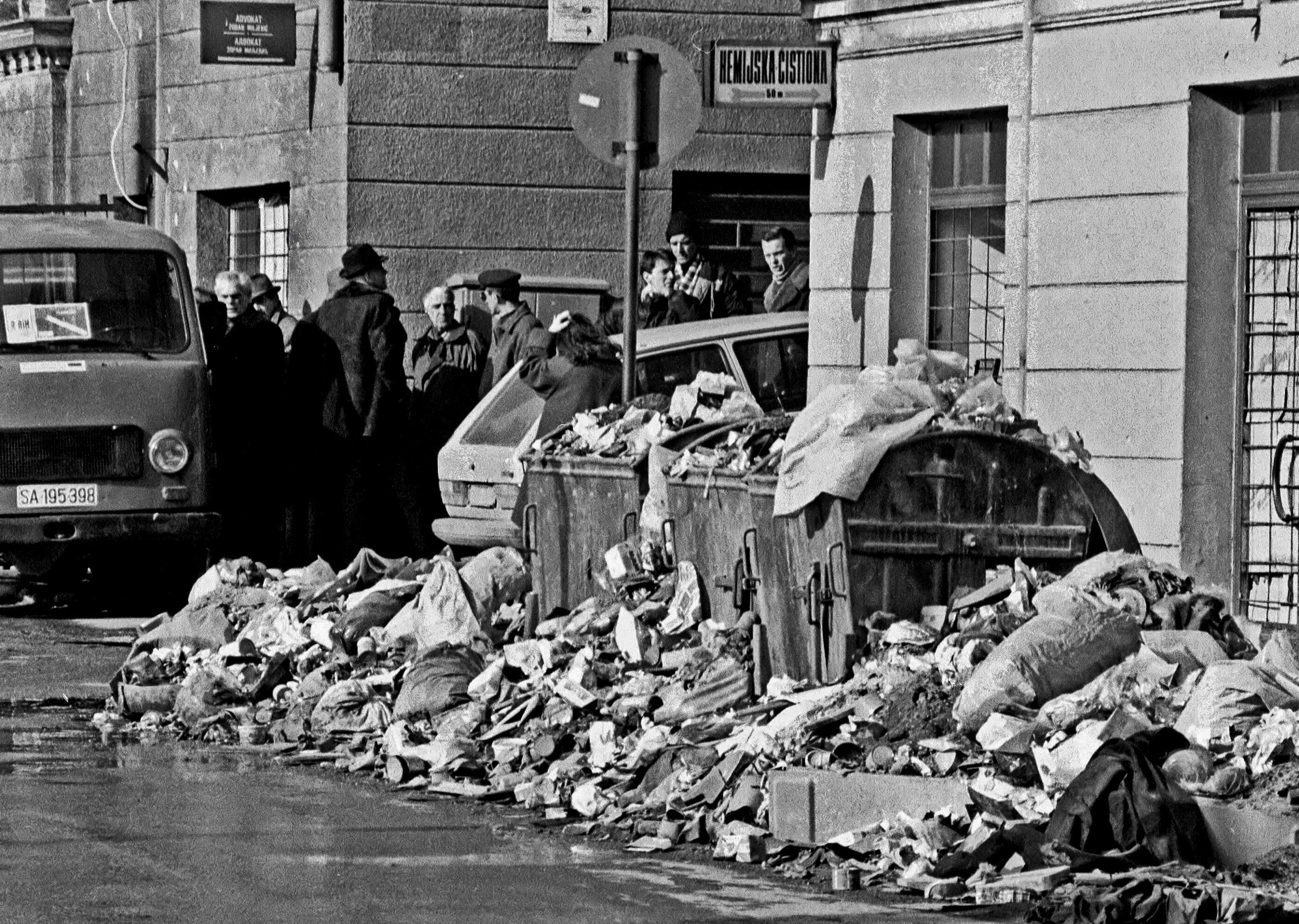 Sarajevo siege life, winter of 1992-1993. With collection and disposal impossible, garbage accumulates in the streets -- here in Kralja Tomislava. Christian Maréchal photo